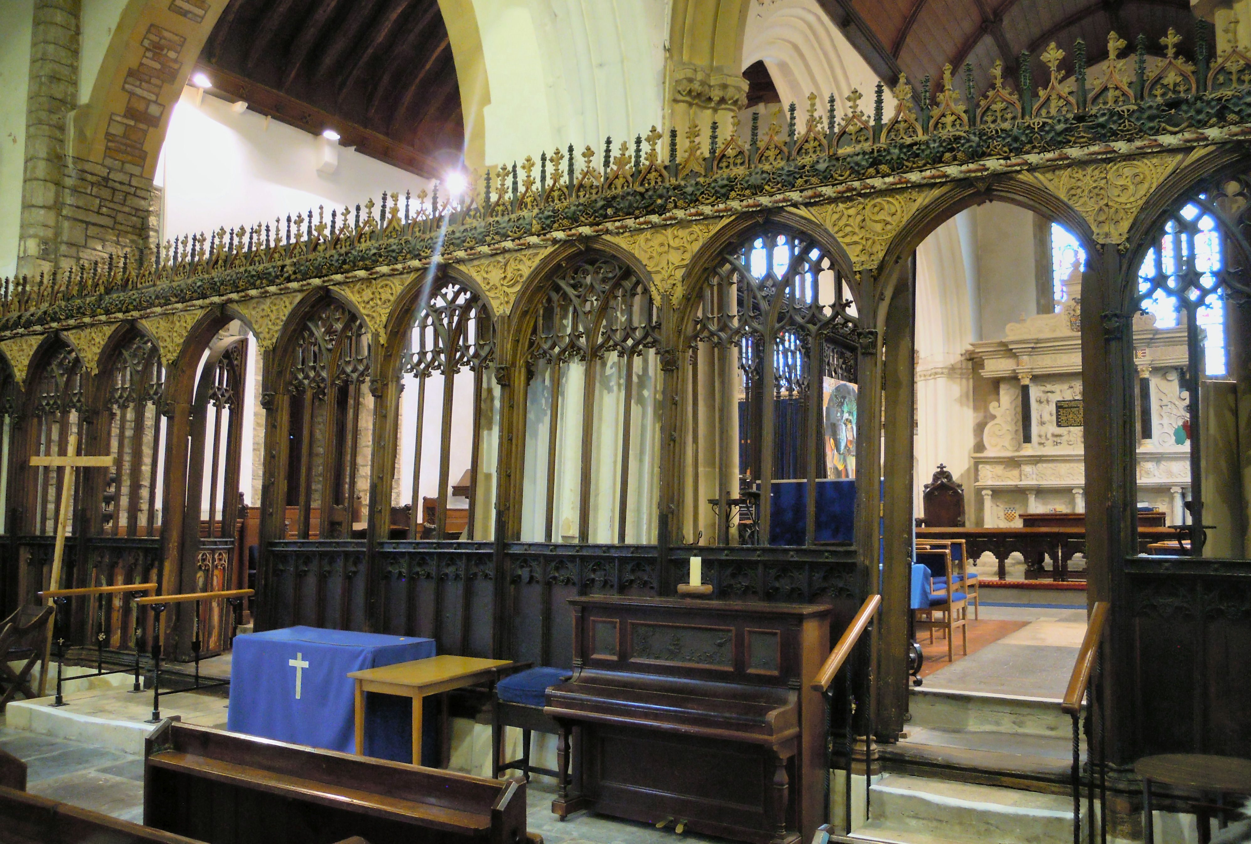 The rood screen in the Church of St Mary the Virgin in Pilton in Barnstaple, Devon